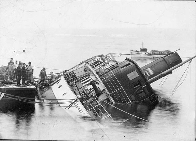 Chesalakee (steamboat) capsized at Van Anda, BC, 22 Jan 1913